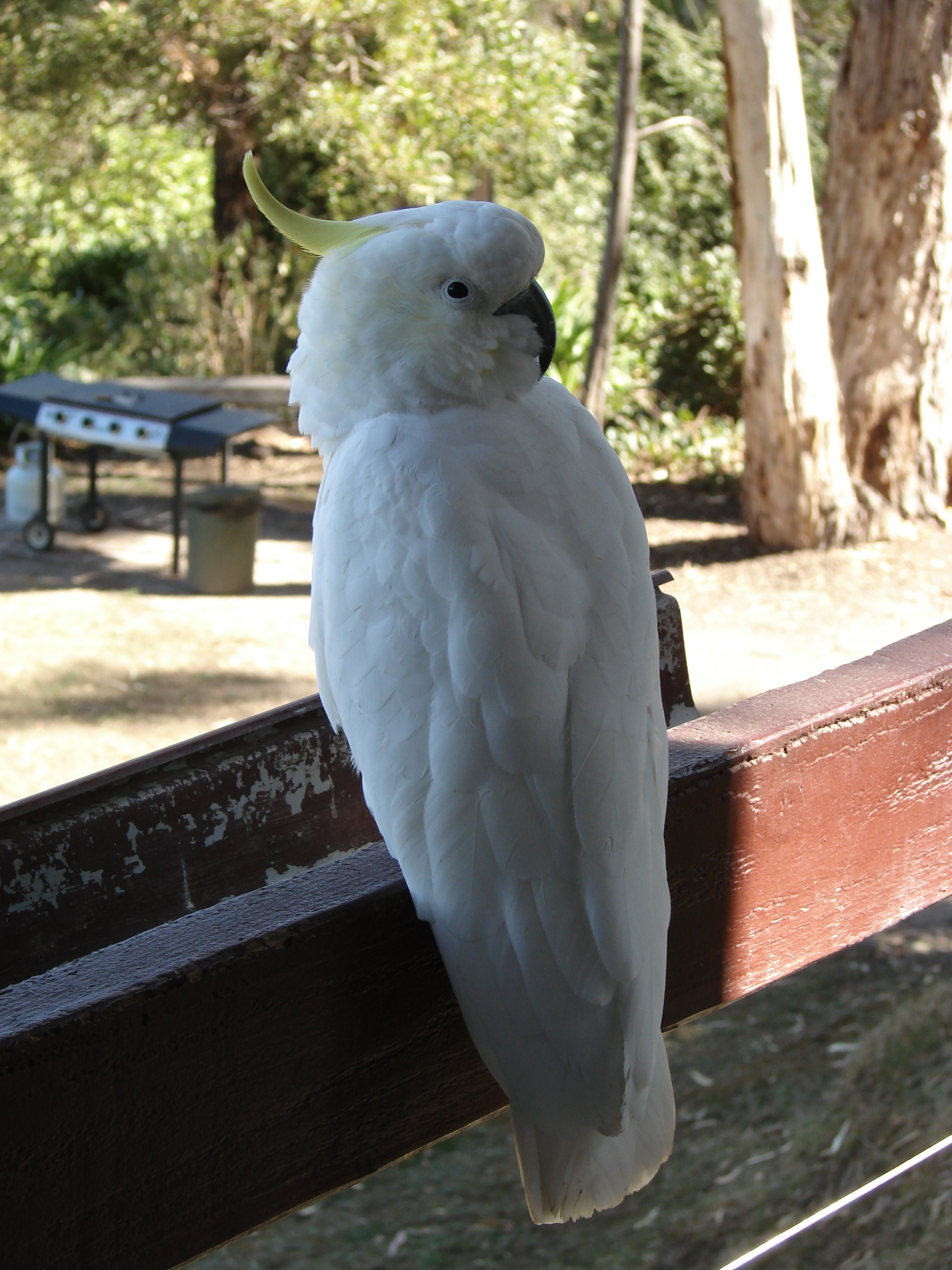 Sulphur-crested Cockatoo, Lorne, Victoria